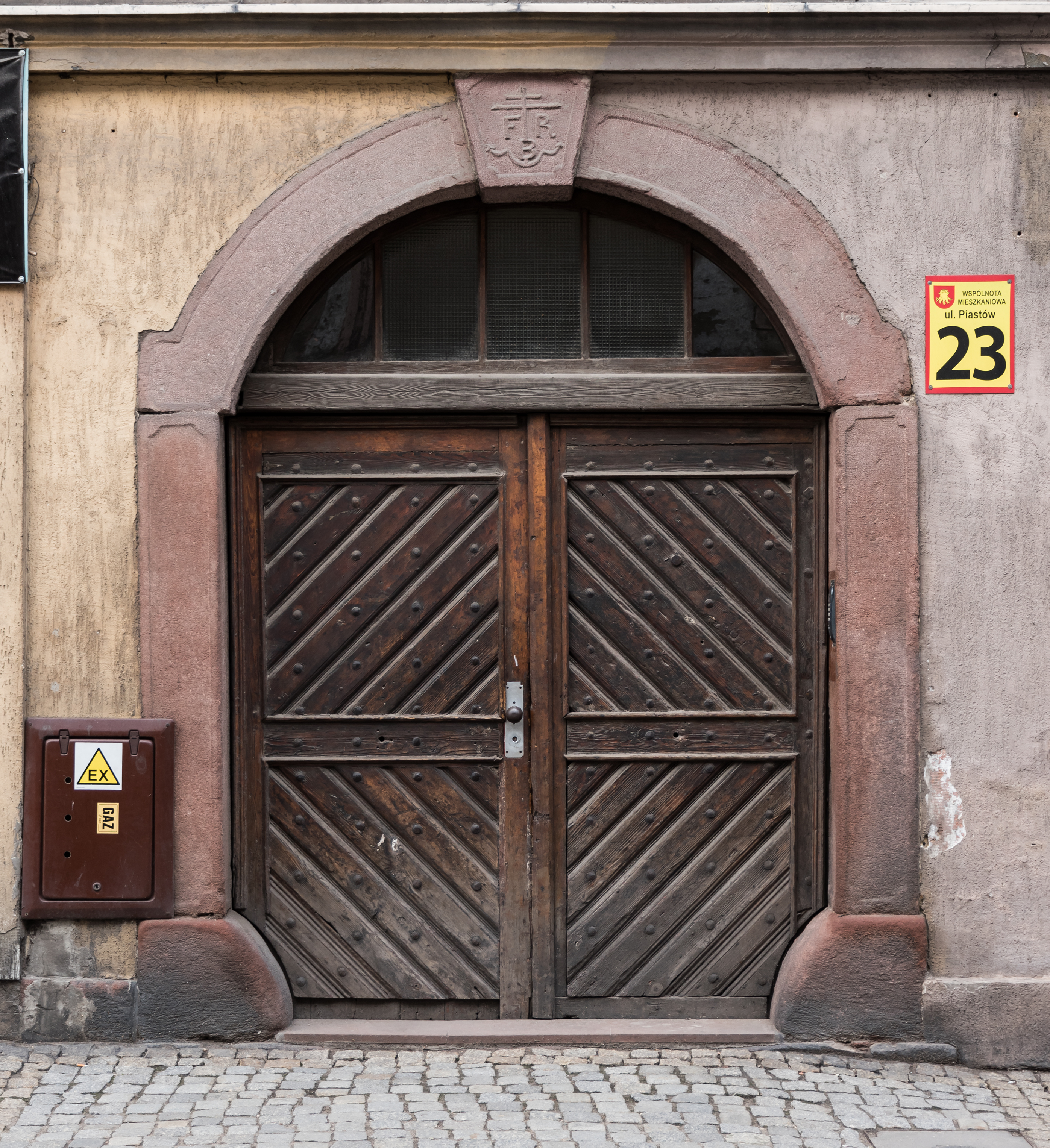 23 Piastów Street in Nowa Ruda